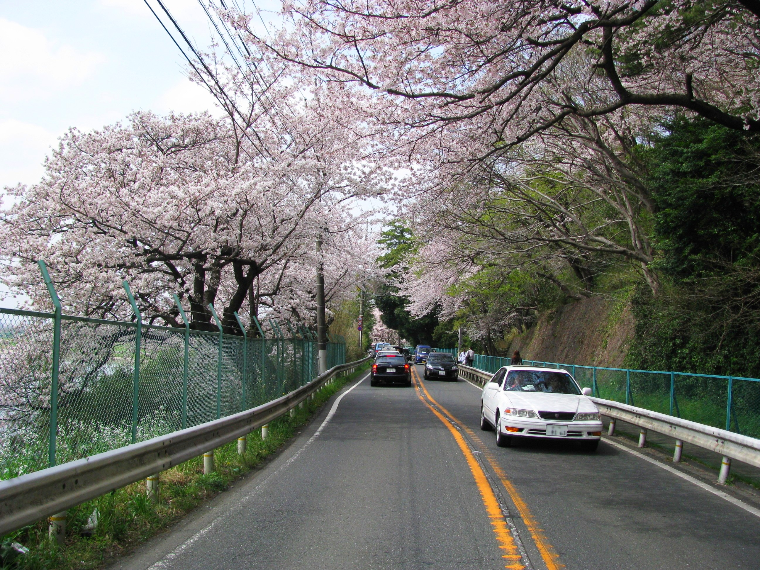 The Tokyo Prefectural Route 11. This located is Denenchōfu in Ōta, Tokyo, Japan.